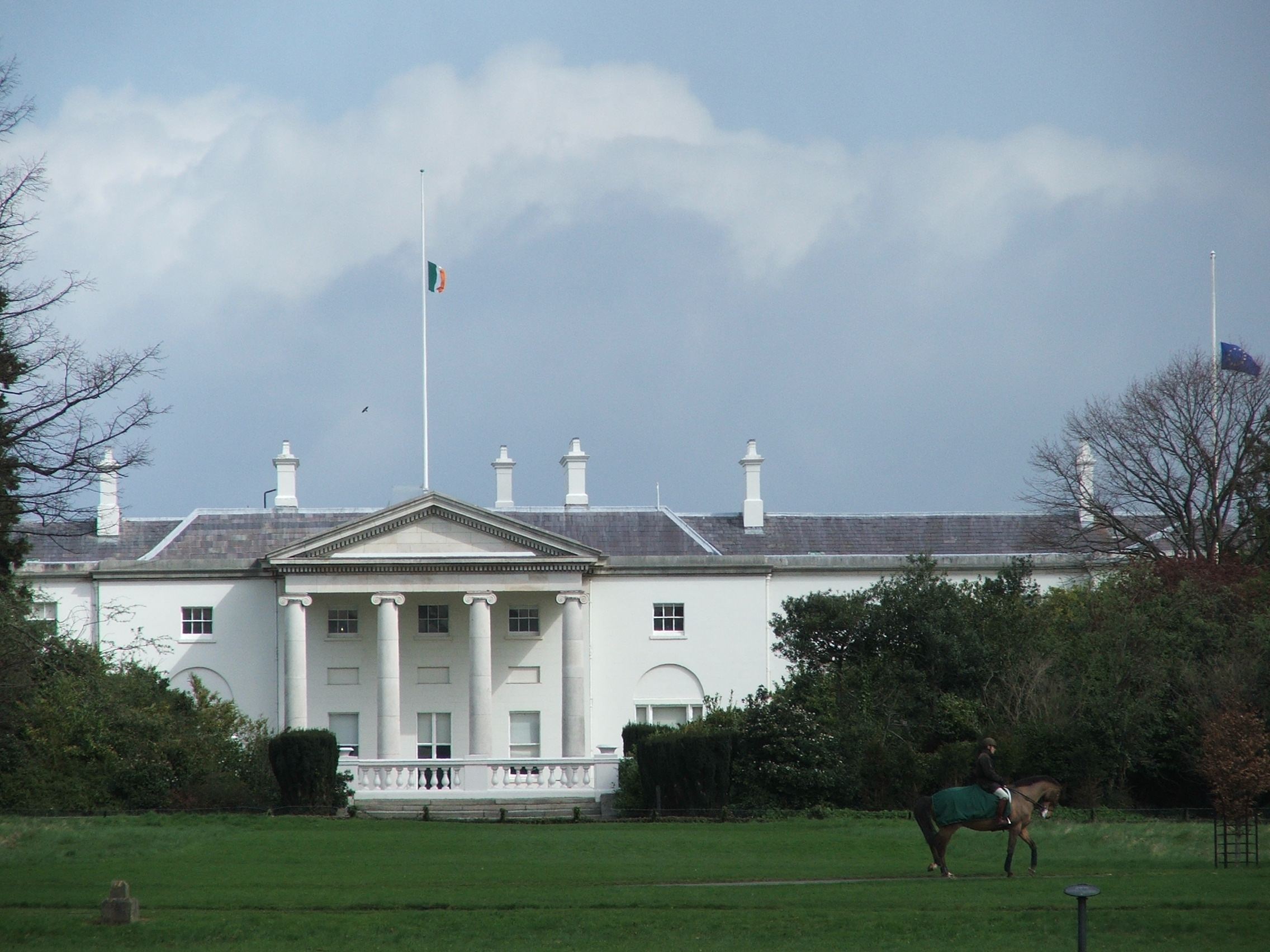 Áras an Uachtaráin, Dublin, Ireland The president of Ireland's residence in the Phoenix Park, Dublin. Notice the flag is at half mast out of respect for the Pope.Áras an Uachtaráin